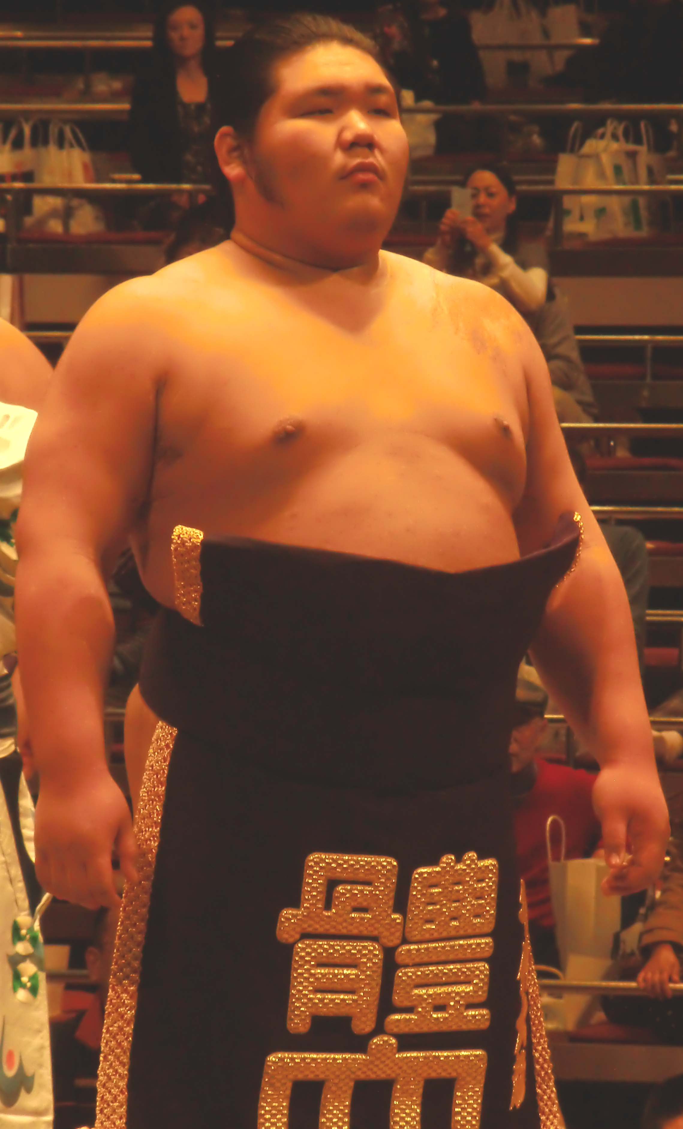 taken at 2012 Jan tournament